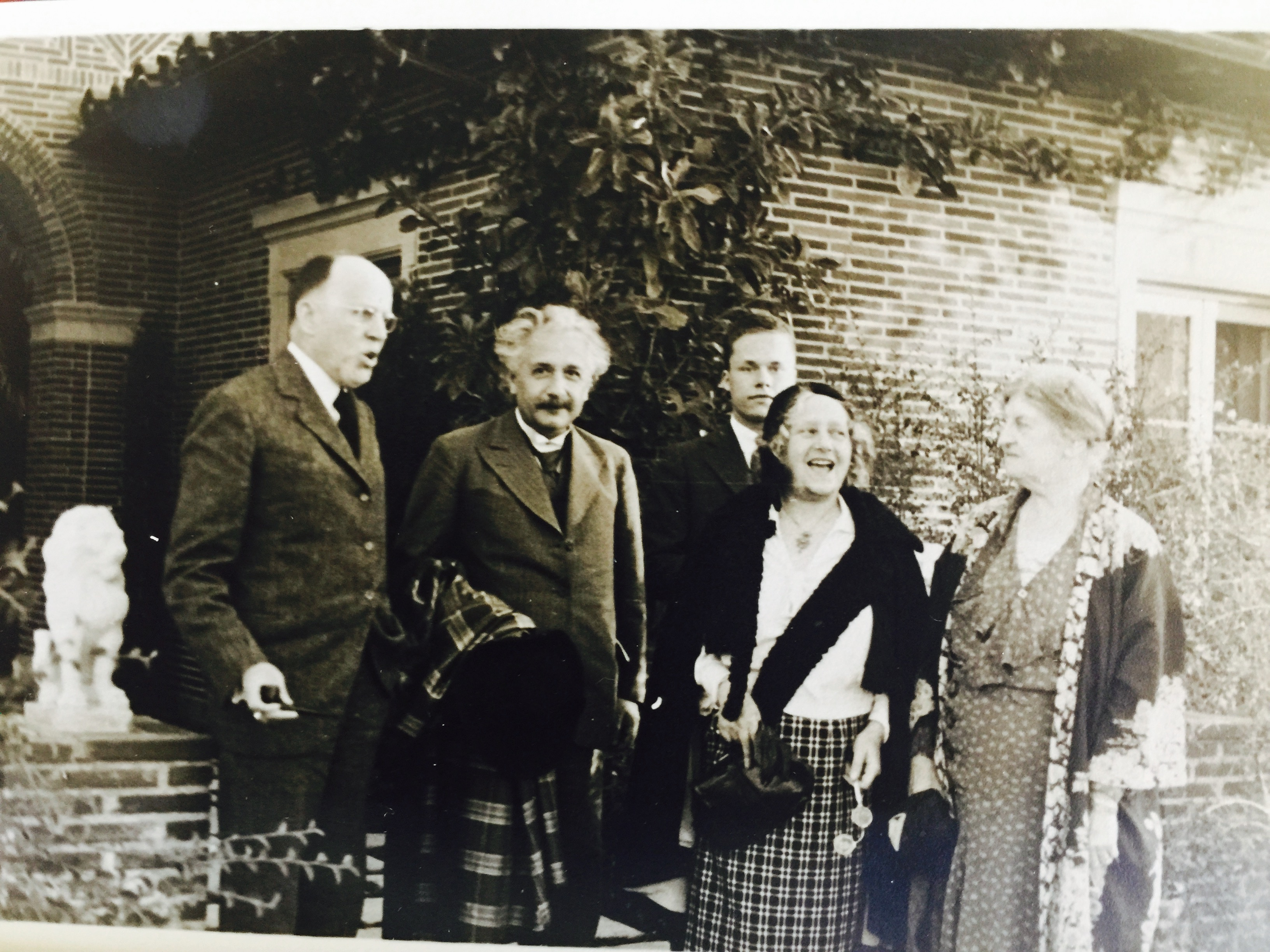 Photograph of Dr. Ernest Carroll Moore (UCLA Provost, Co-Founder, Professor), Dr. Albert Einstein, Elsa Einstein, Dr. Dorothea R. Moore (poet, doctor, suffragette, activist), unidentified person in back room, circa February 1932, UCLA Chancellor Residence.